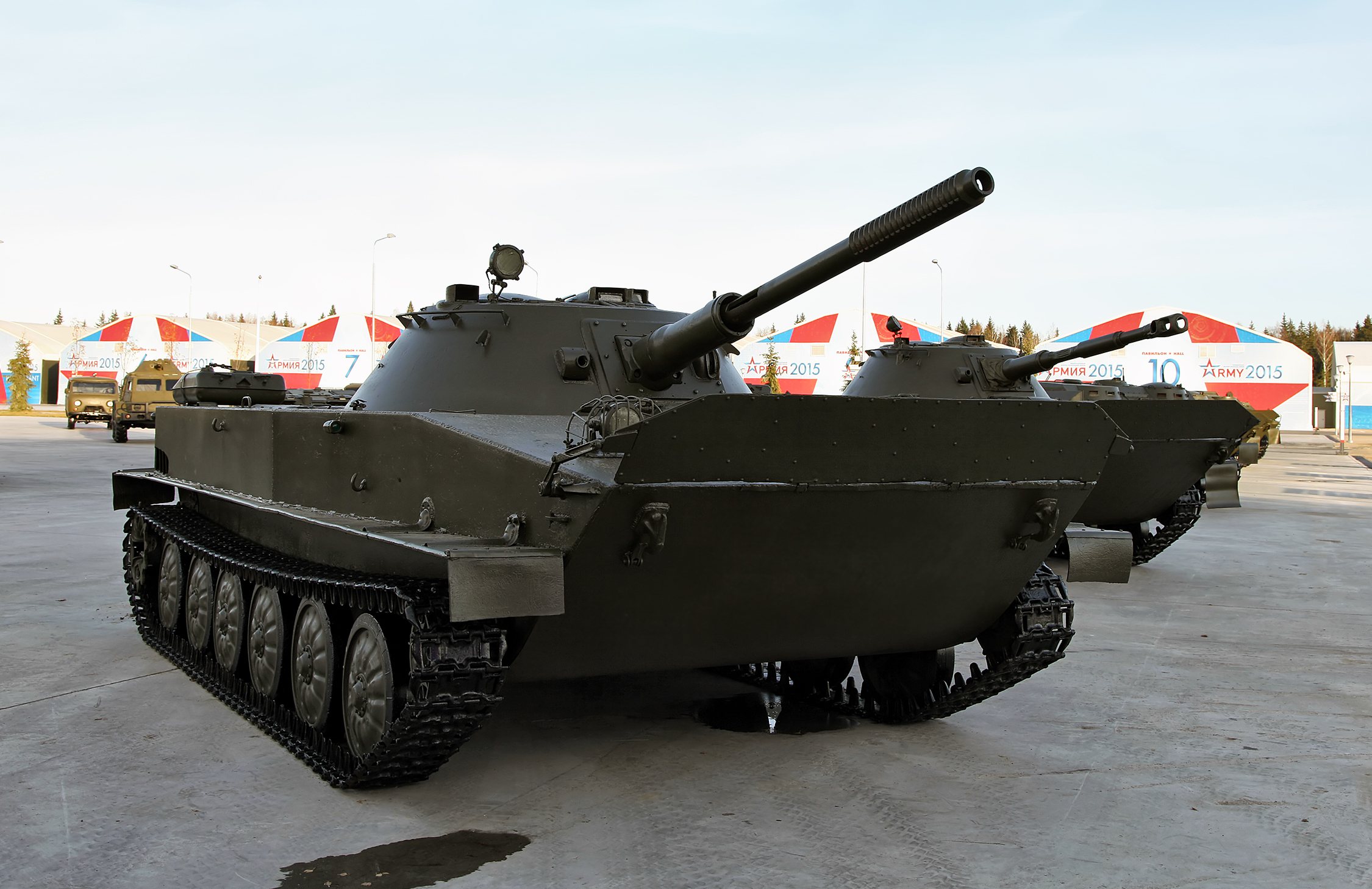 Light amphibious tank PT-76